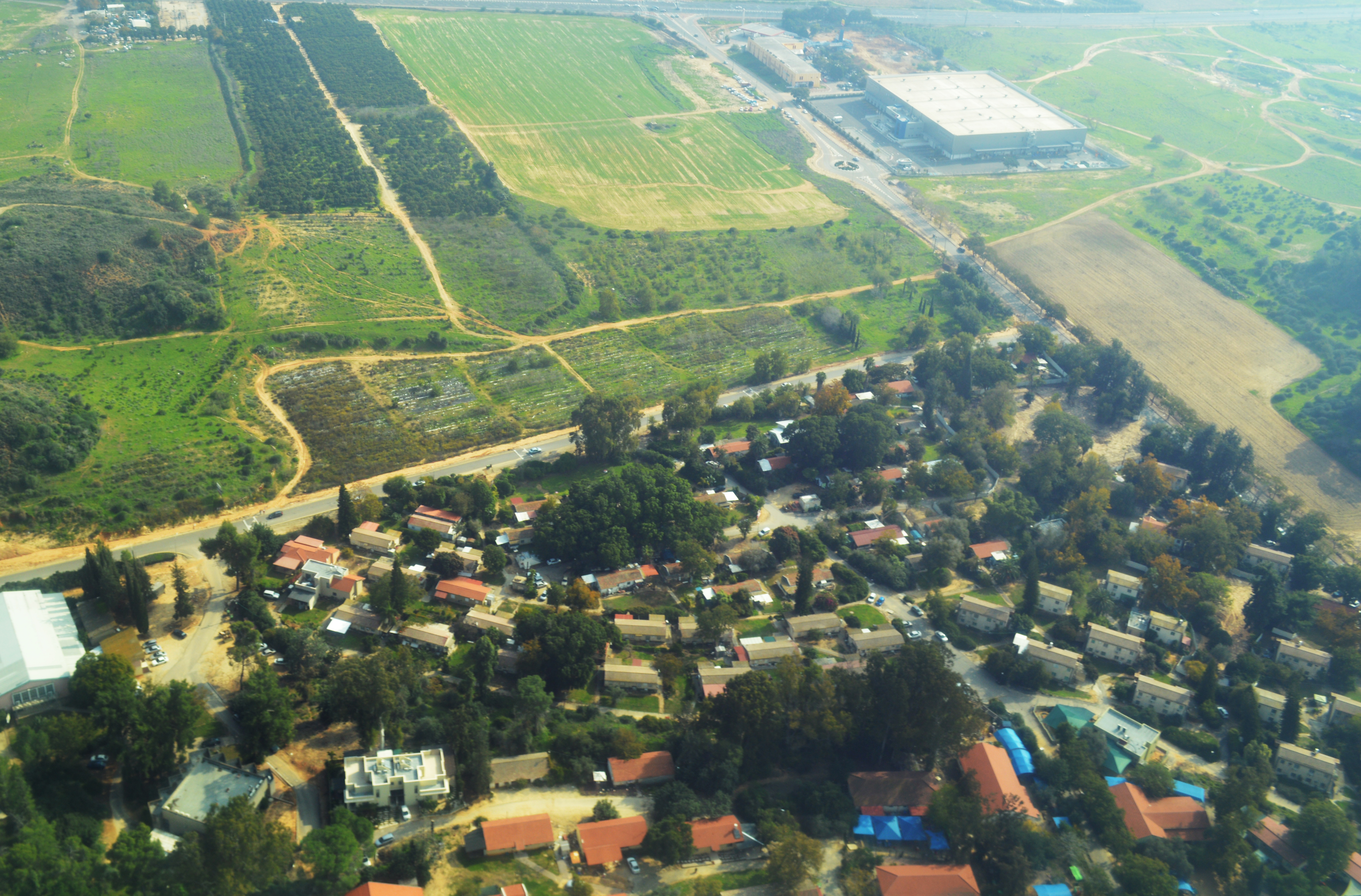 Givat Brenner Aerial View